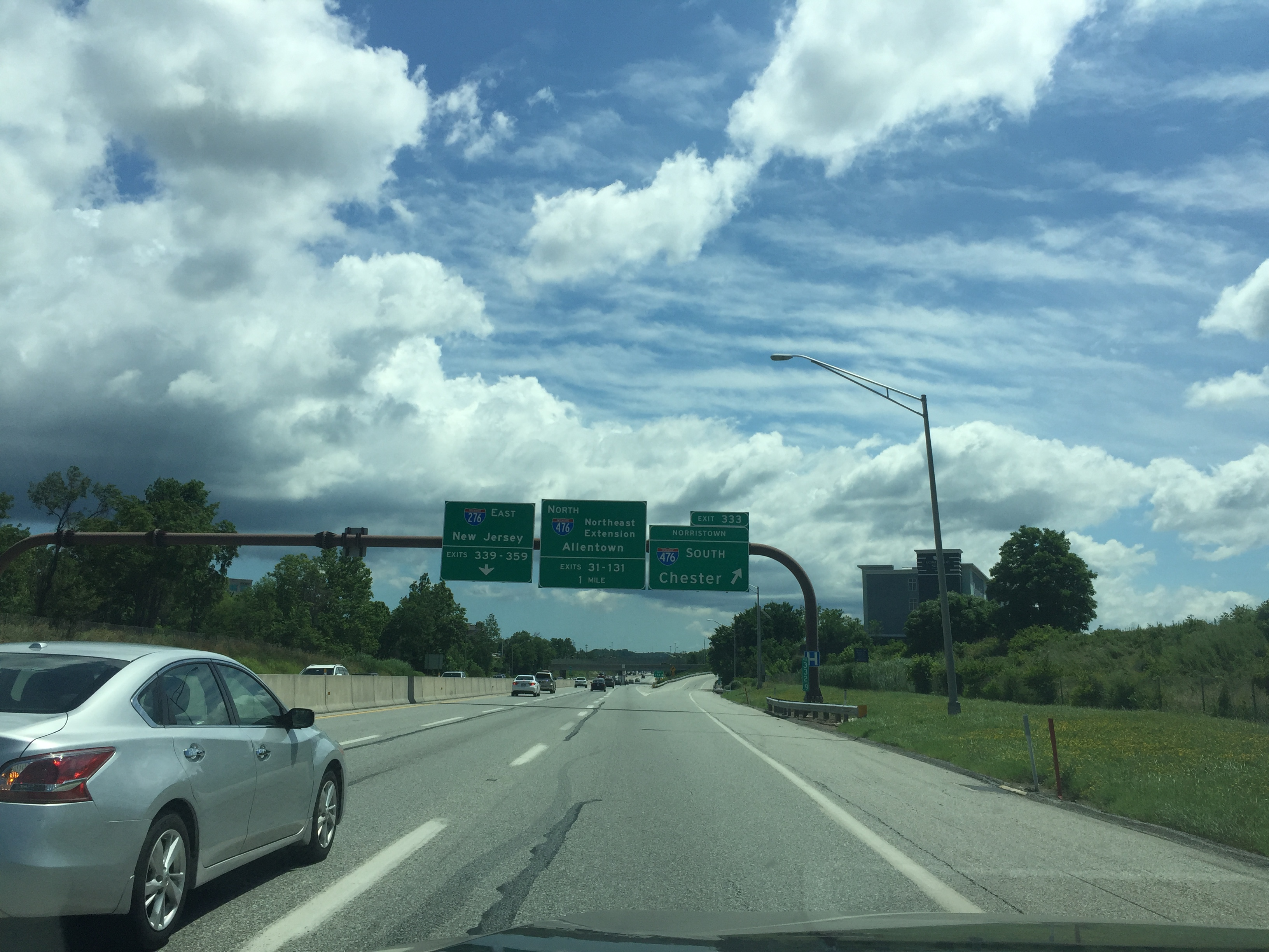 Norristown exit PA Turnpike